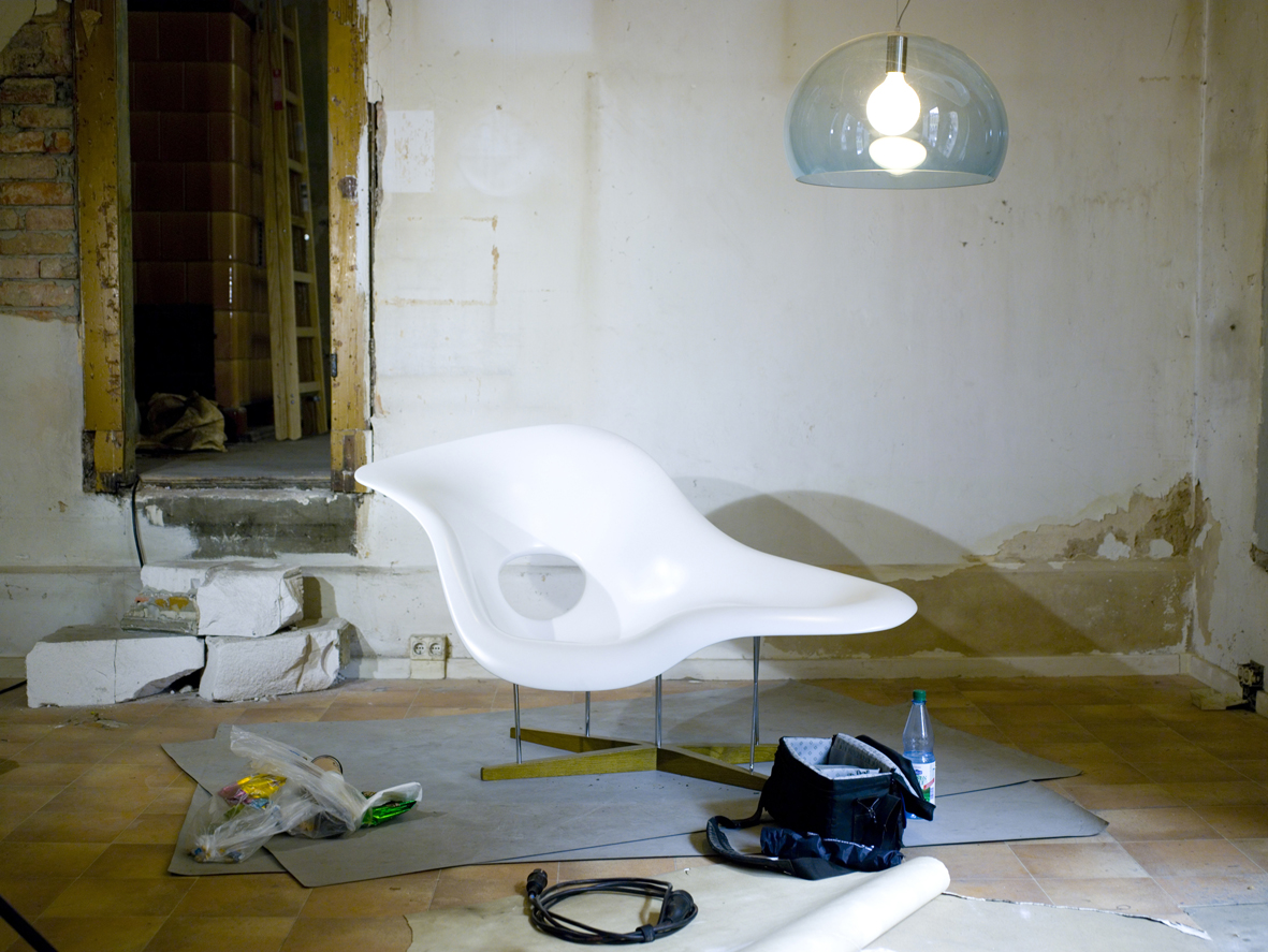 Inspired by Floating Figure by Gaston Lachaise, "La Chaise" is a "Chaise Longue" - clever that - of exqusite beauty and functionality. Designed by Charles and Ray Eames in 1948 for a competition at the New York Museum of Modern Art (MoMa) and produced by Vitra since 1991 "La Chaise" was one of the Eames's first plastic creations and in many ways the forerunner of their plastic chair series, such as the DSR, DSX or DAW. Set beside the lamp FL/Y by Ferruccio Laviani for Kartell one appreciates much more the free flowing form of "La Chaise"